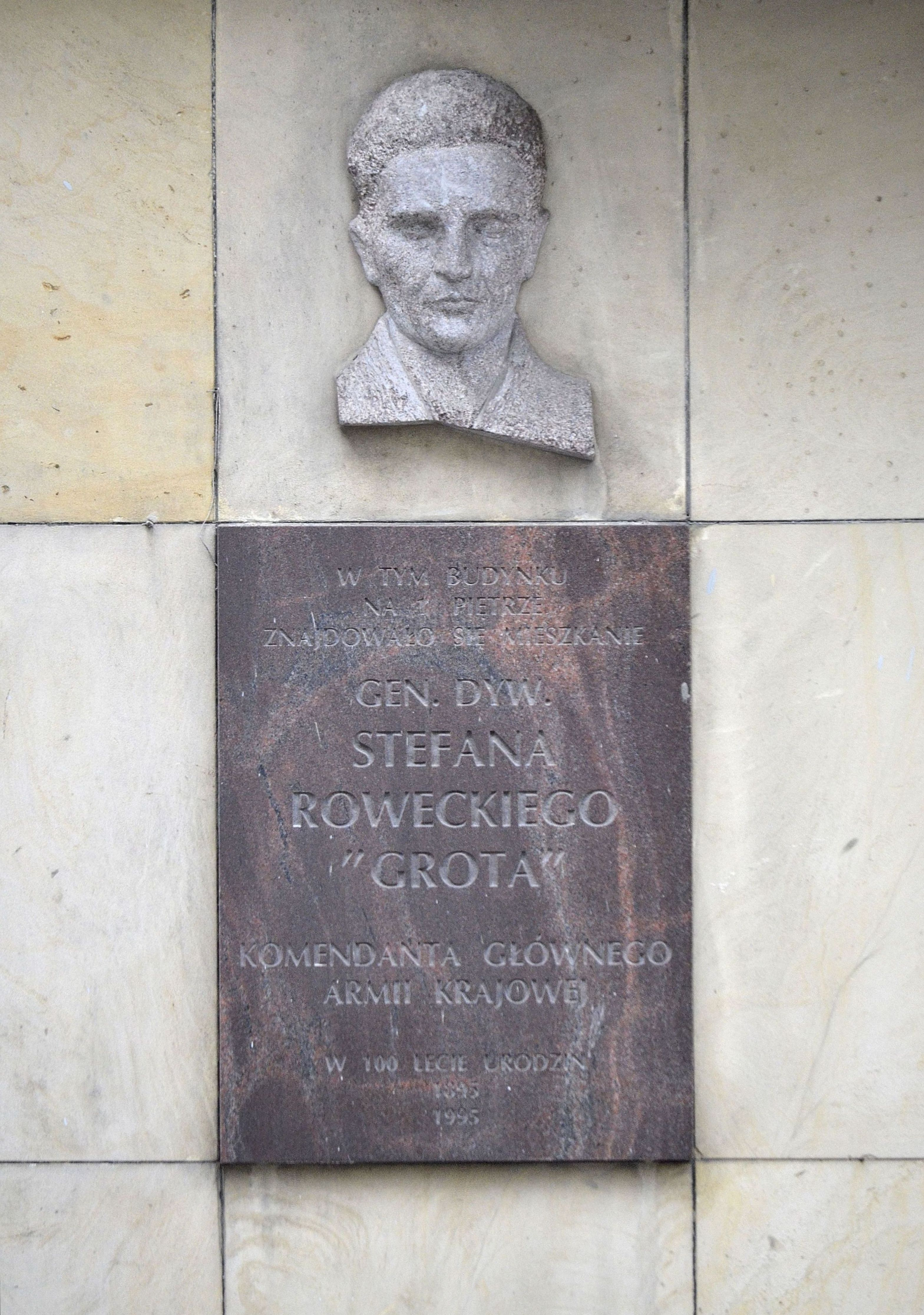 Plaque in memory of Stefan Grot Rowecki at 22 Chocimska Street in Warsaw